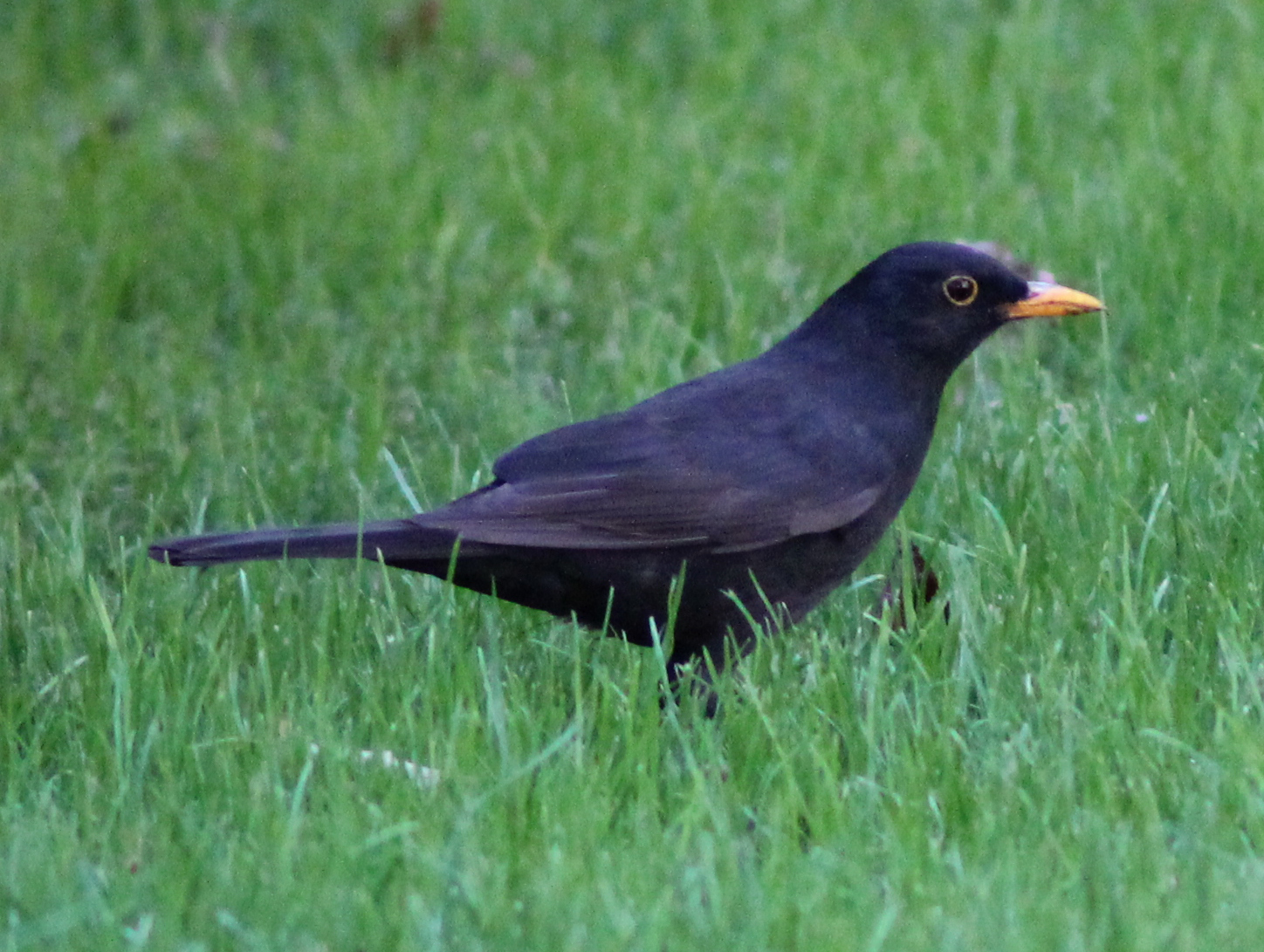 A male blackbird (Turdus merula) in Madrid (Spain).